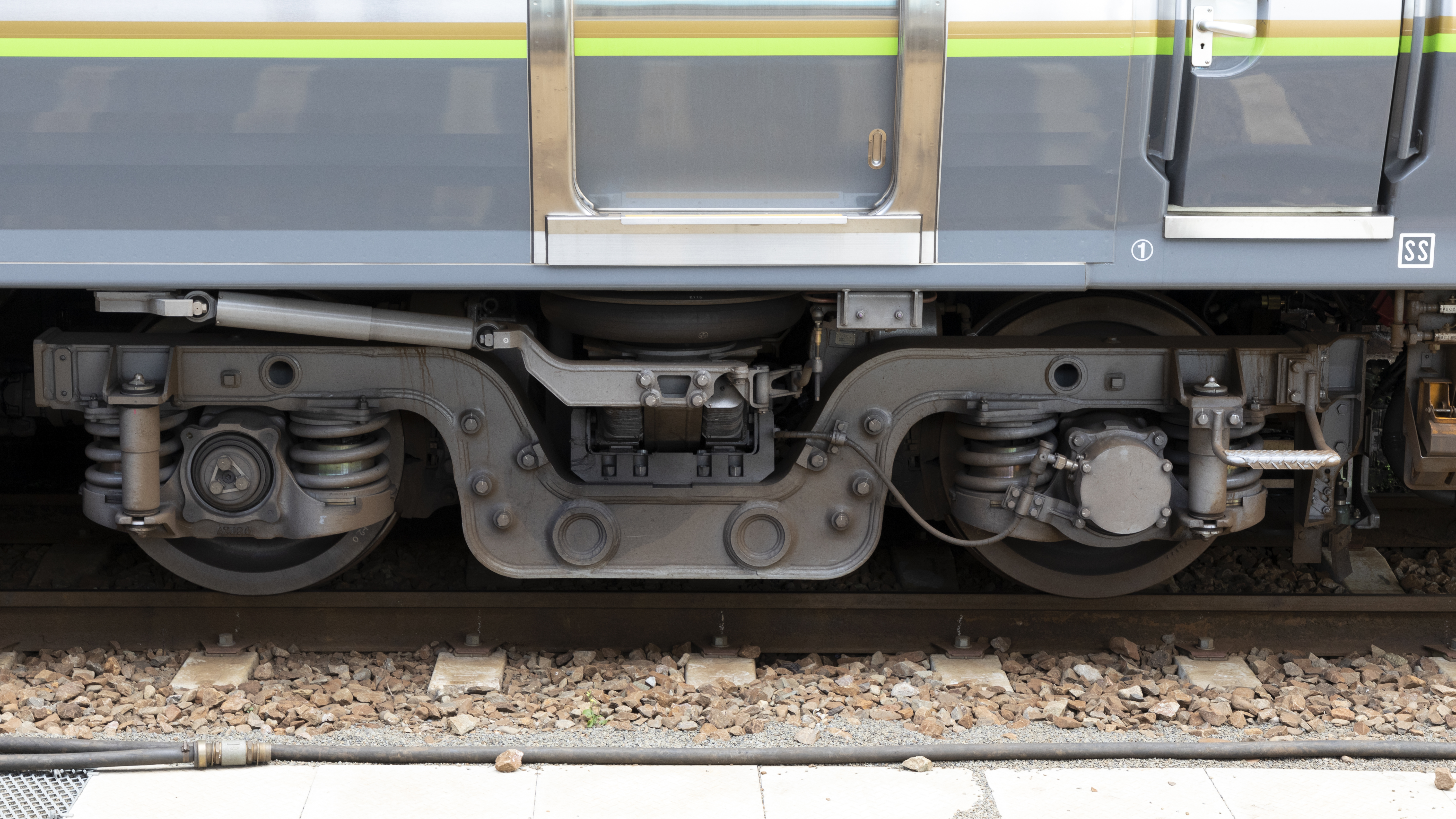 An S-DT70 bogie of a JR Shikoku 2700 series diesel multiple unit train